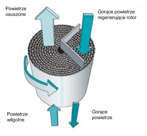 Rotor's working principle